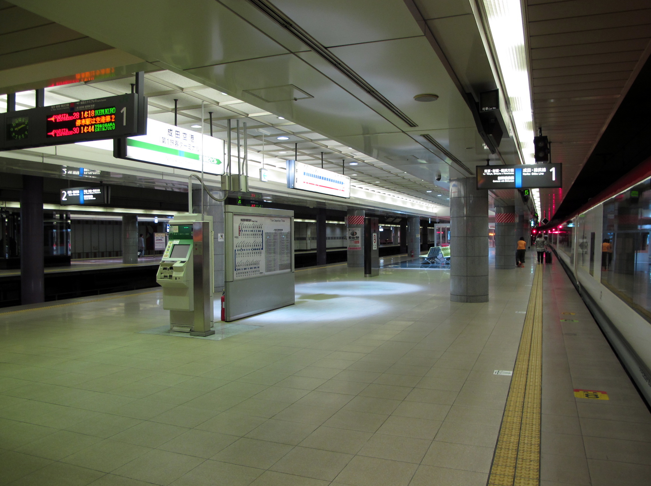 The JR East platforms (1 and 2) at Narita Airport Terminal 1 Station